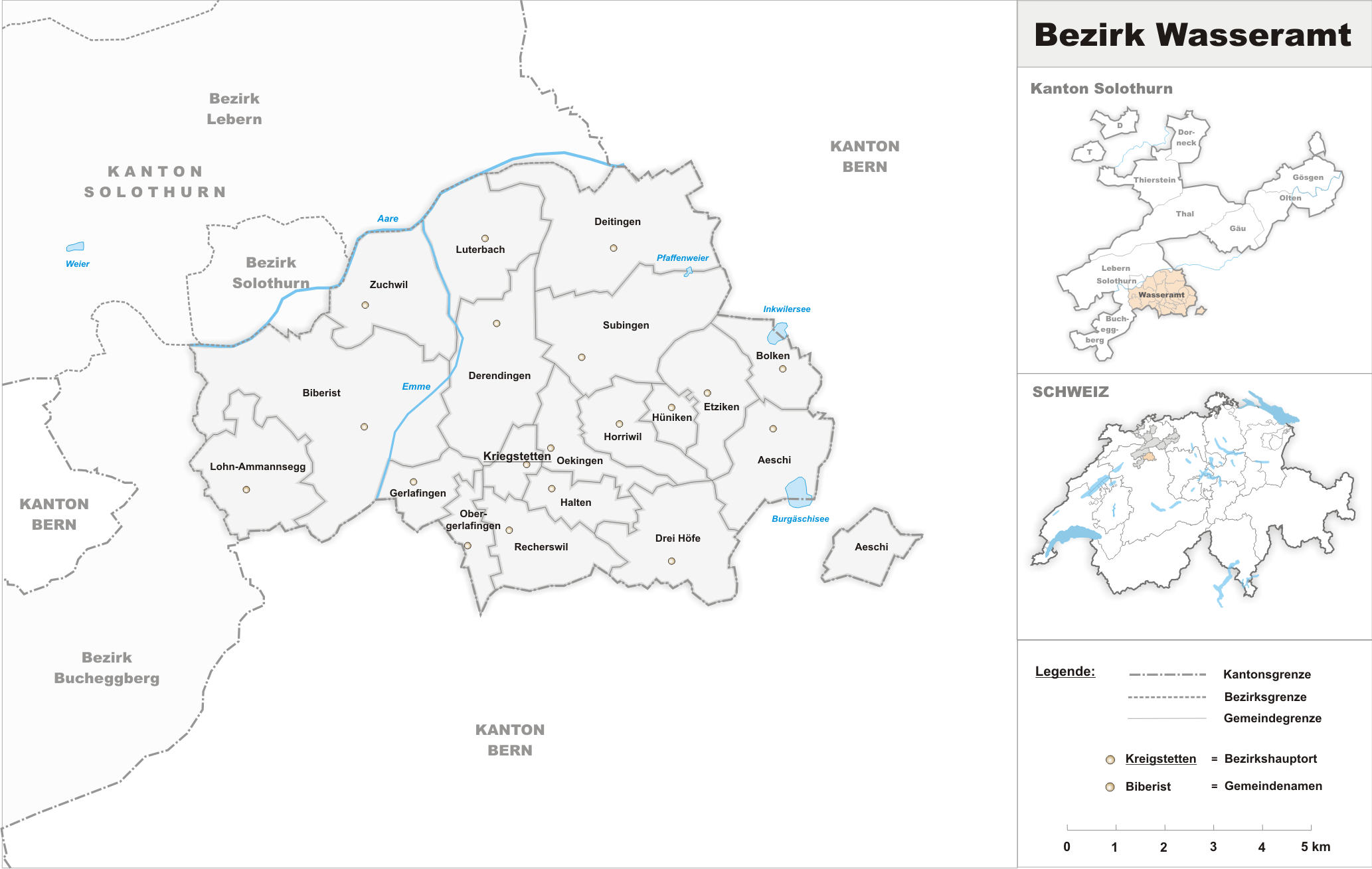 Municipalities in the district of Wasseramt